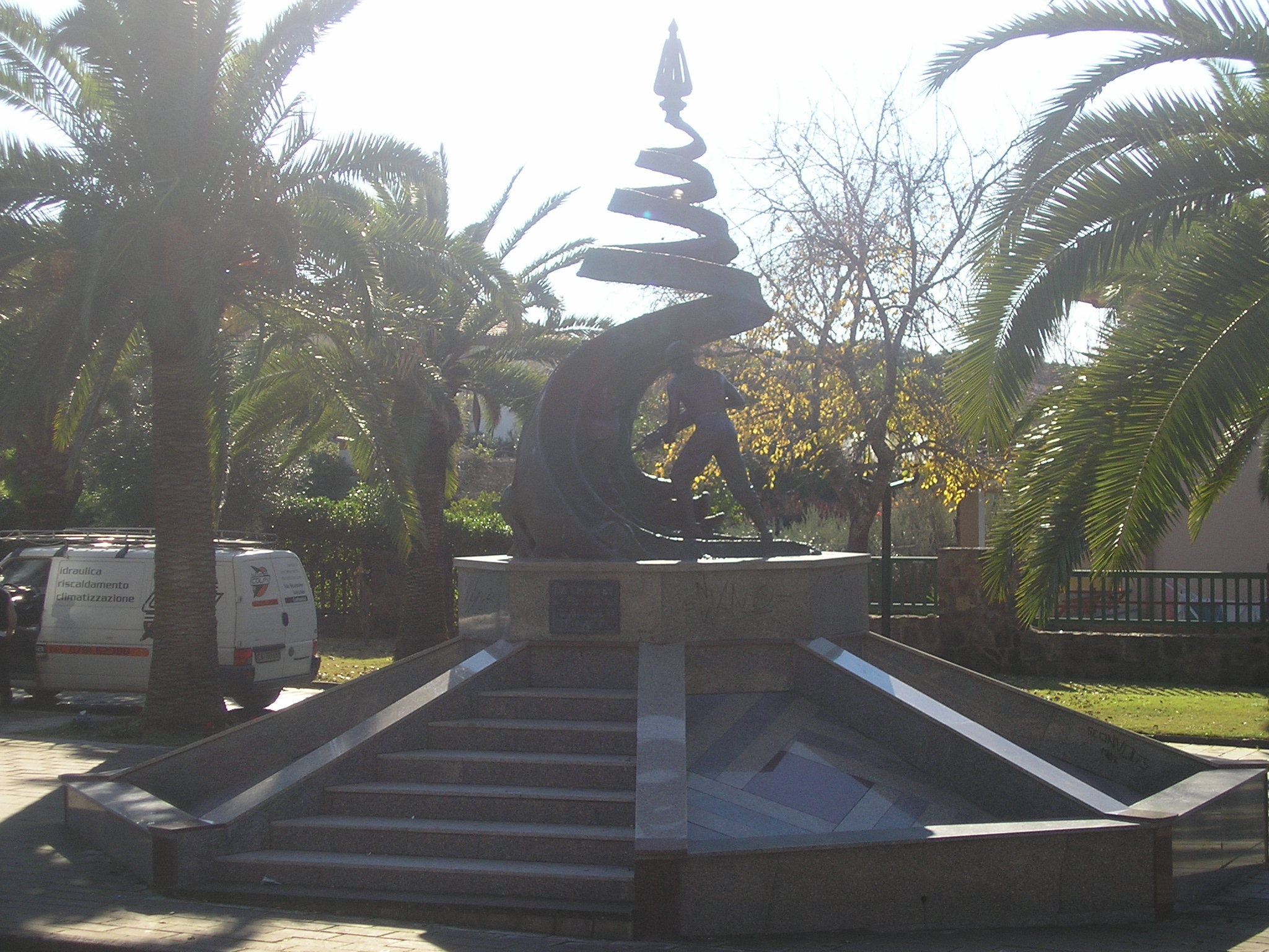 The miners' monument in Carbonia, Sardinia, Italy